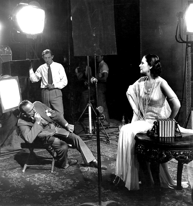 Photo of Michael Curtiz planning for photography of Lil Dagover during filming I Spy.